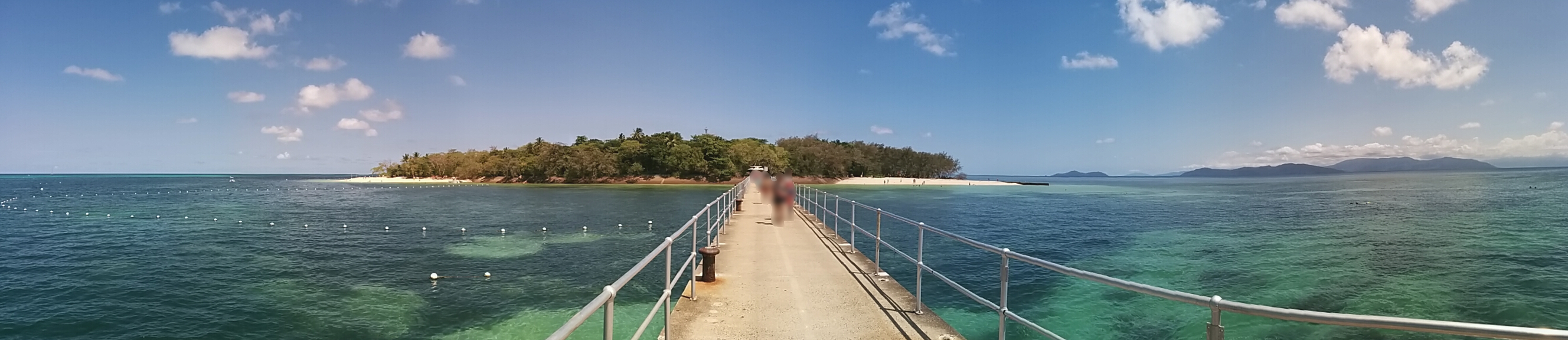 Panorama of Green Island seen from jetty